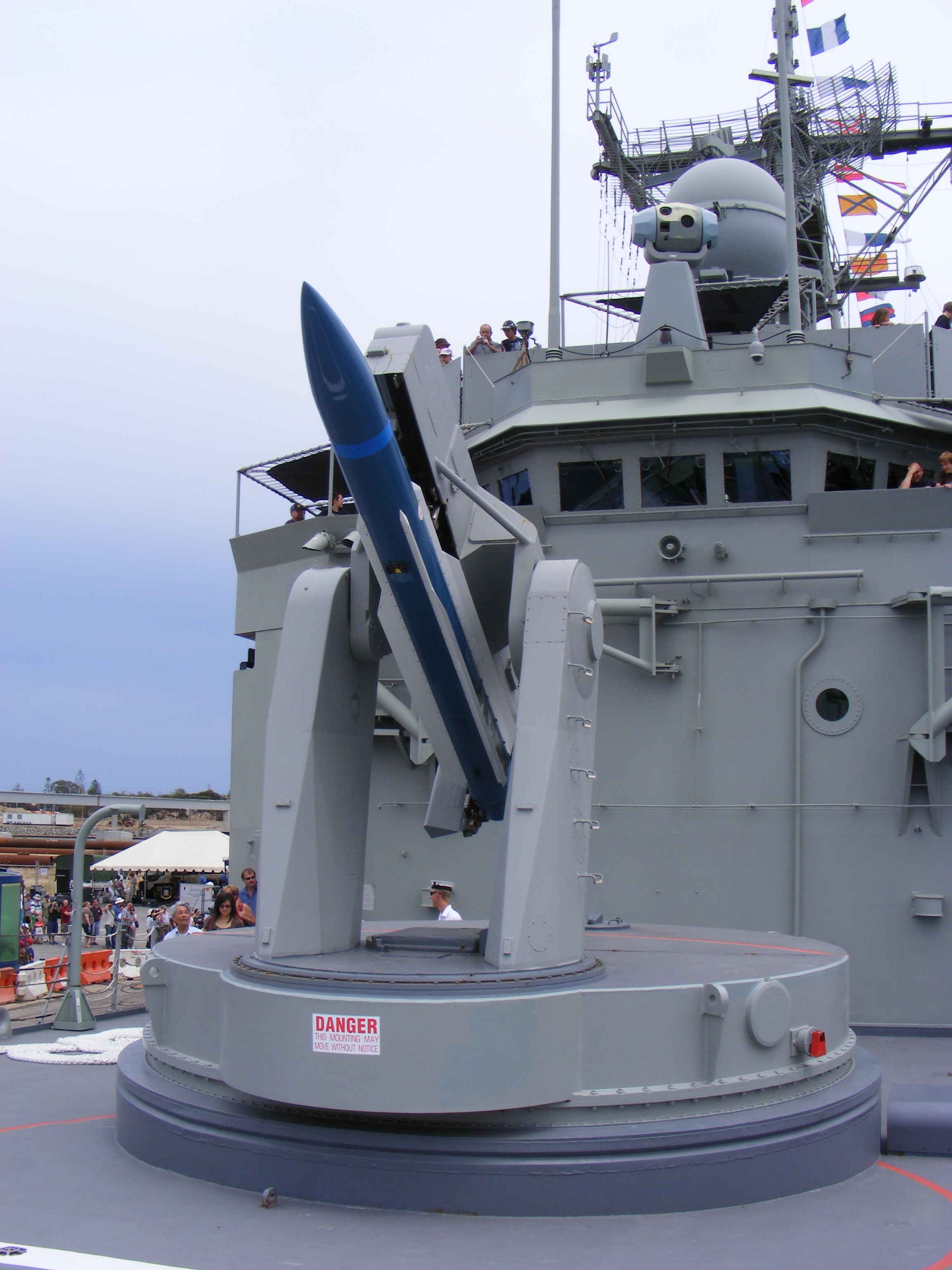 The Mk13 missile launcher of HMAS Adelaide (FFG 01) being loaded with a MK59 Mod3 guided missile dummy round. Part 3 of the missile loading sequence Photo taken on an open day at Dock 2, Port Adelaide, South Australia See Image:HMAS Adelaide FFG01 Mk13 missile launcher loading part 1.jpg and Image:HMAS Adelaide FFG01 Mk13 missile launcher loading part 2.jpg